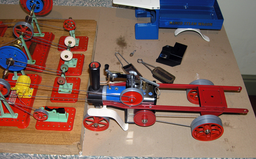 A blue Mamod steam wagon driving a set of miniature workshop tools